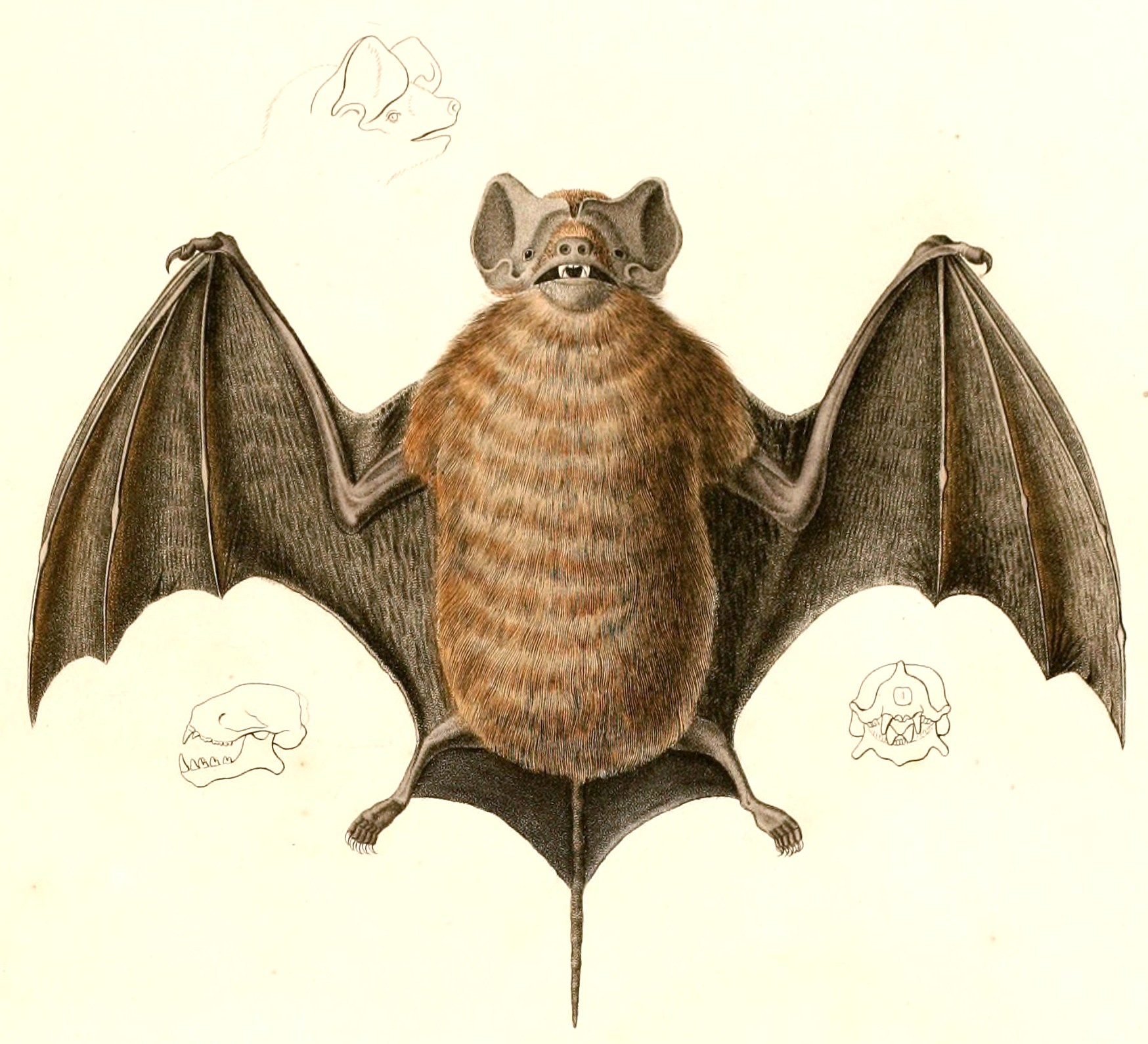 « Molossus moxensis » = Molossus molossus molossus (Subspecies of Velvety Free-tailed Bat)